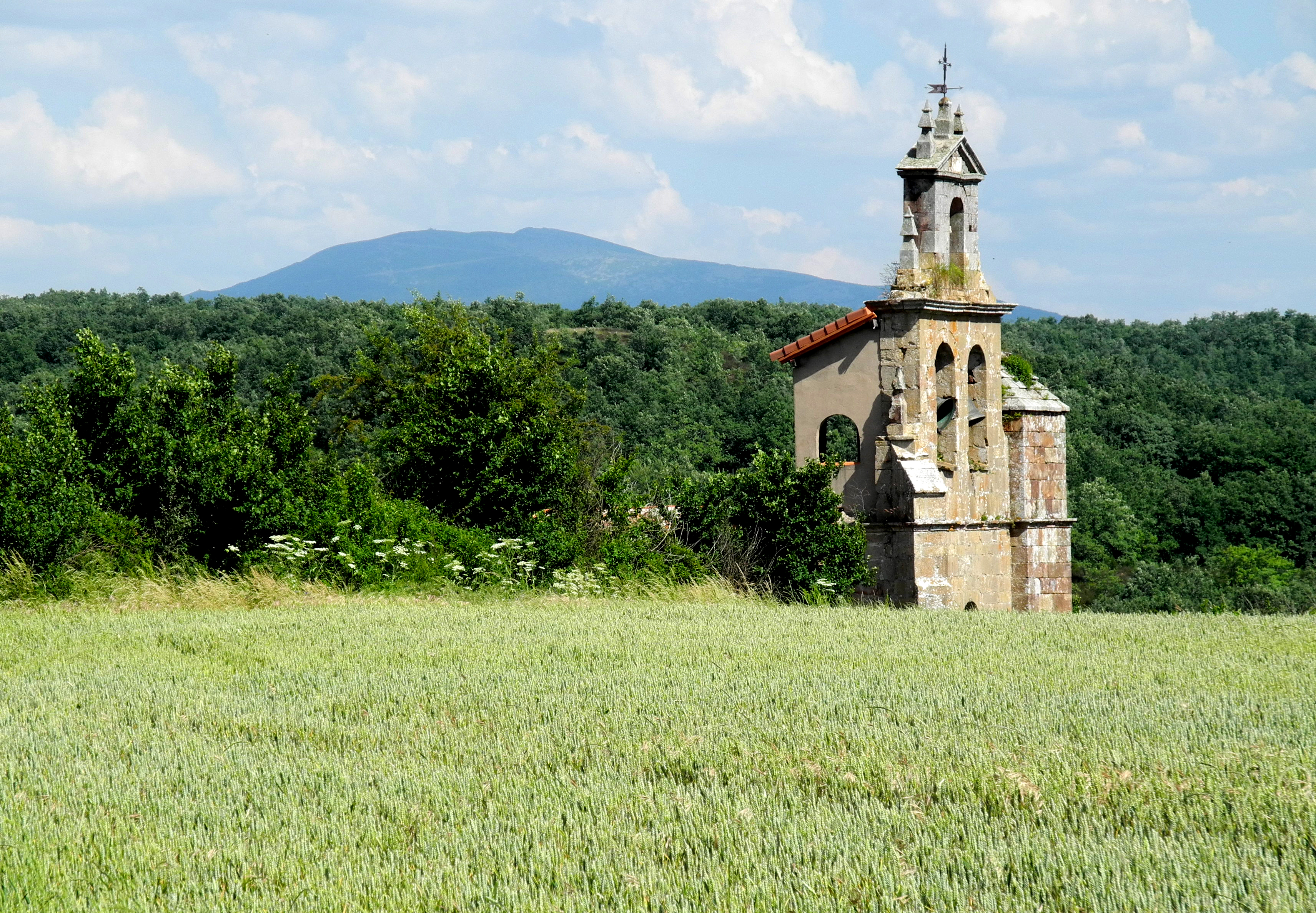 Galarde church bell gable. Arlanzón, Burgos, Castile and León, Spain